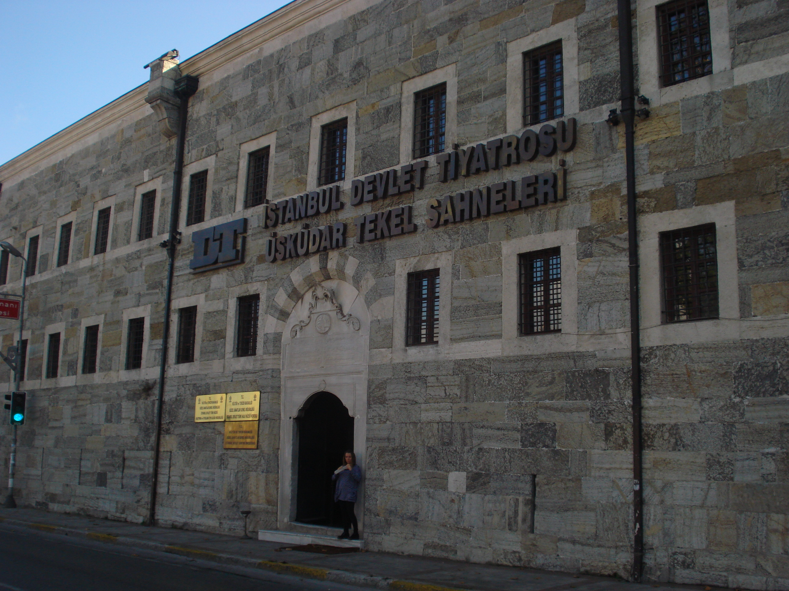 Istanbul State Theatre building in Uskudar.